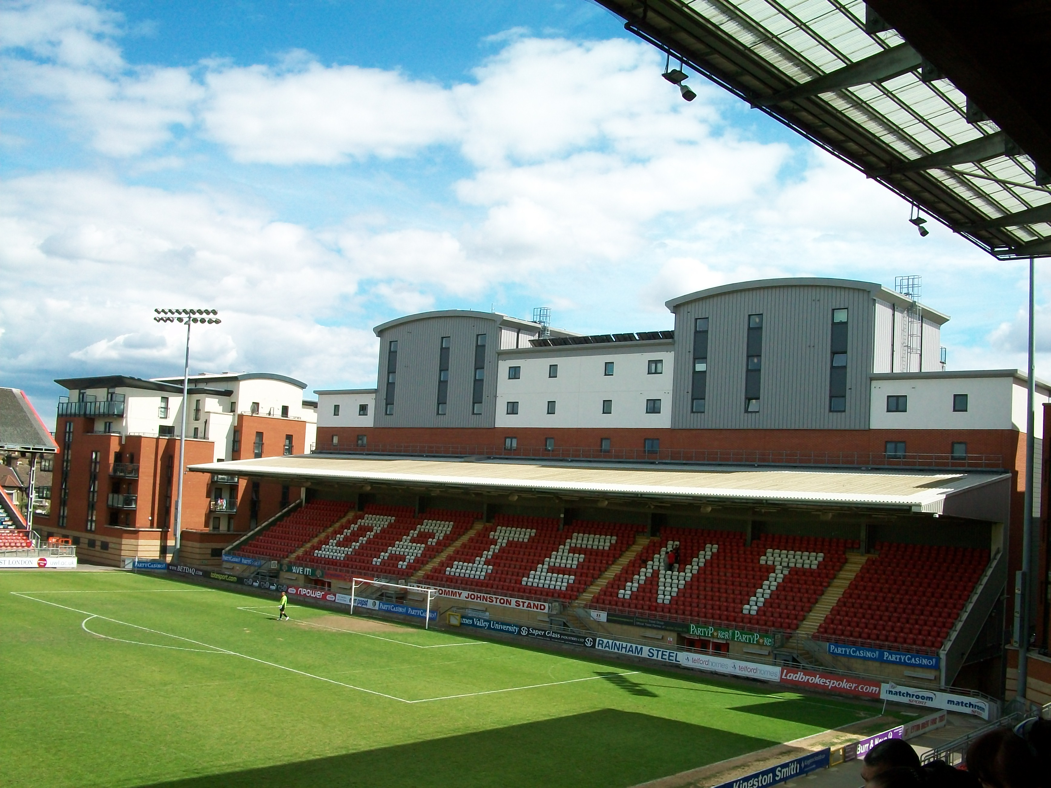 Brisbane Road end stand